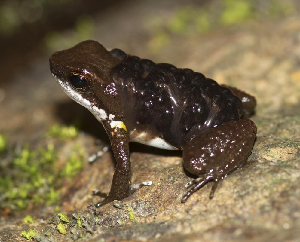 This female Colostethus panamensis was carrying tadpoles to the stream on her back. This very stream dependent frog is threatened by Chytrid fungus and has an incredible set of interesting behaviors, a stream full of these sounds like a stream chirruping with birds... (Panama)